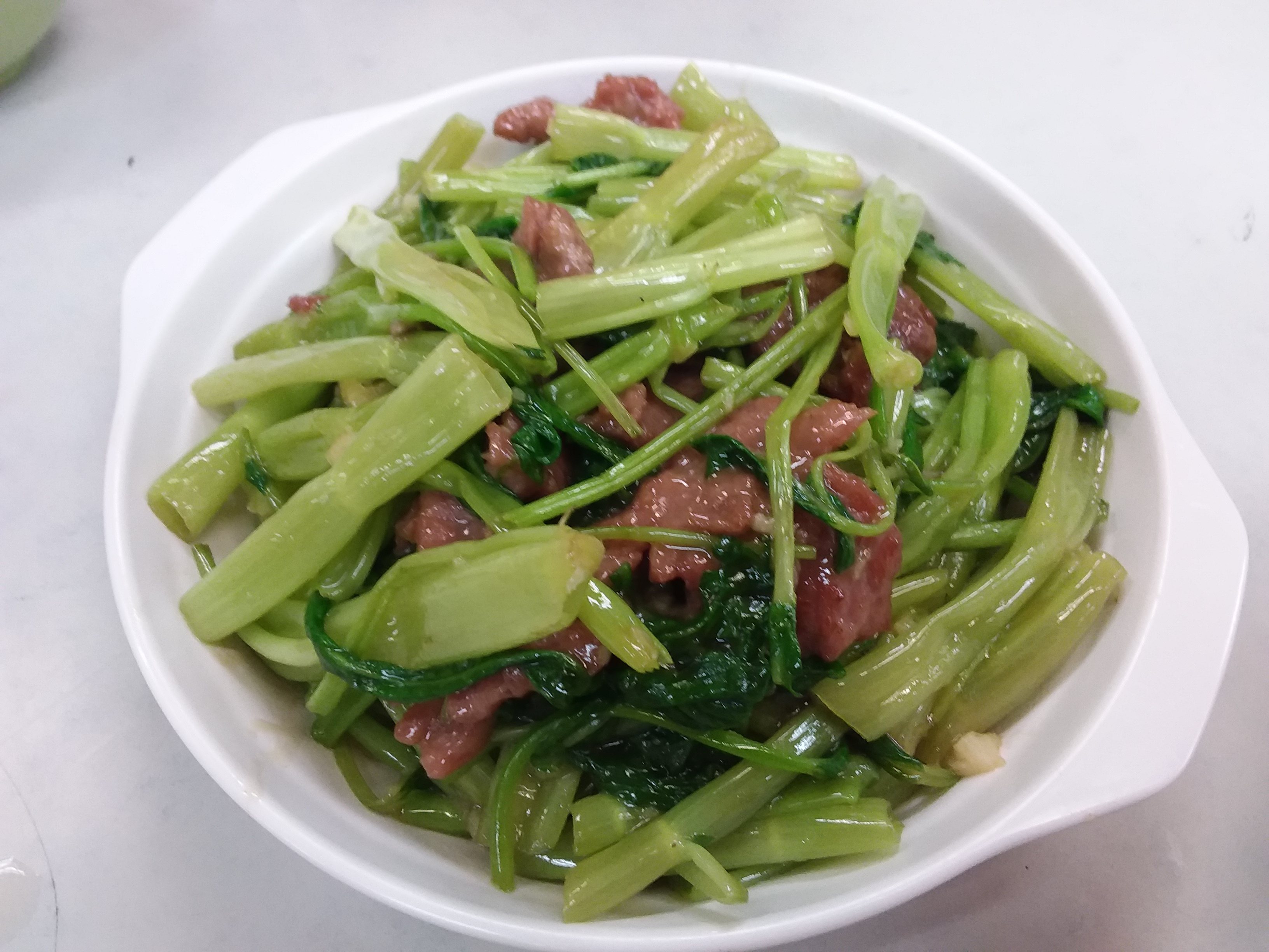 HK 上環市政大廈 Sheung Wan Municipal Building Cooked food centre 棟記 Tung Kee Restaurant in August 2019 牛肉炒通菜